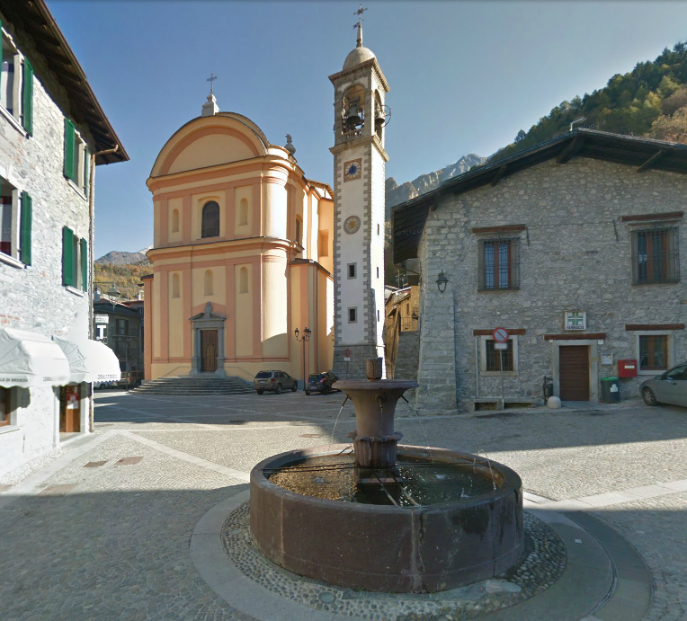 Piazza di Niardo